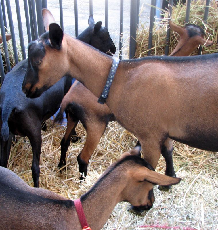 Oberhasli goats, including a black Oberhasli (in background).